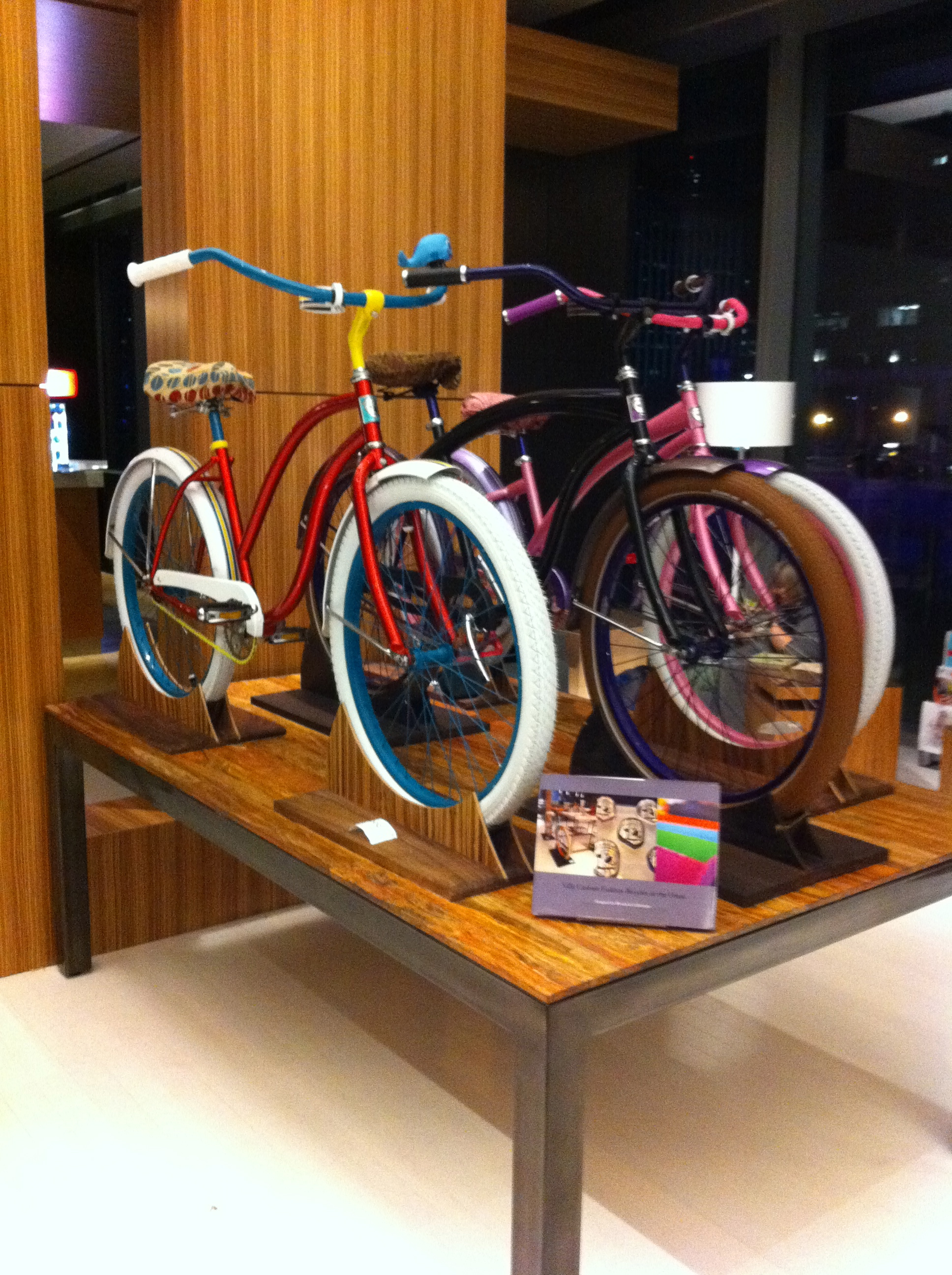 Here are some luxury fashion bicycles by Villy Customs featured at the very unique Omni Dallas Hotel gift shop, Morcels and Collections.